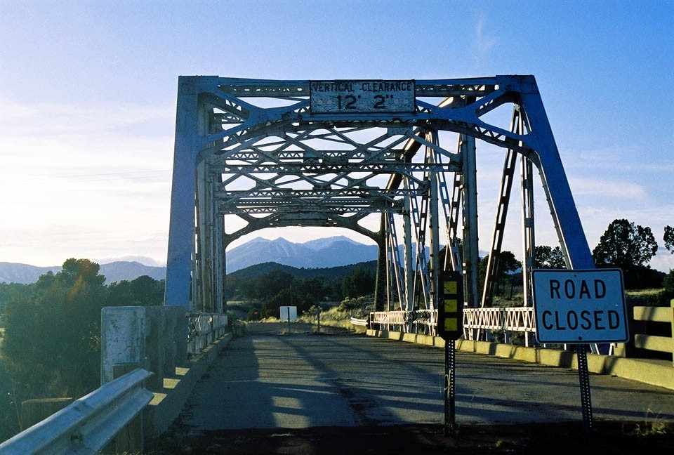 Winona Bridge, Winona, Arizona with the San Francisco Peaks in the background.